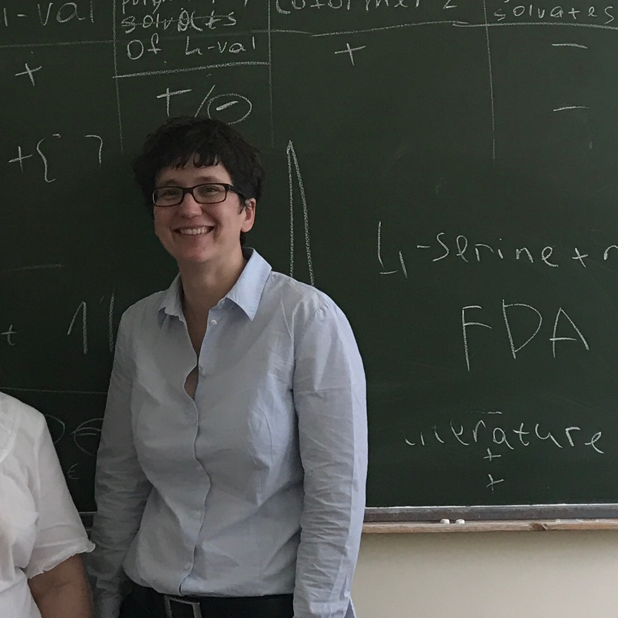 Prof. Elena Boldyreva (left) and Dr. Franziska Emmerling (right) during a meeting in Novosibirsk